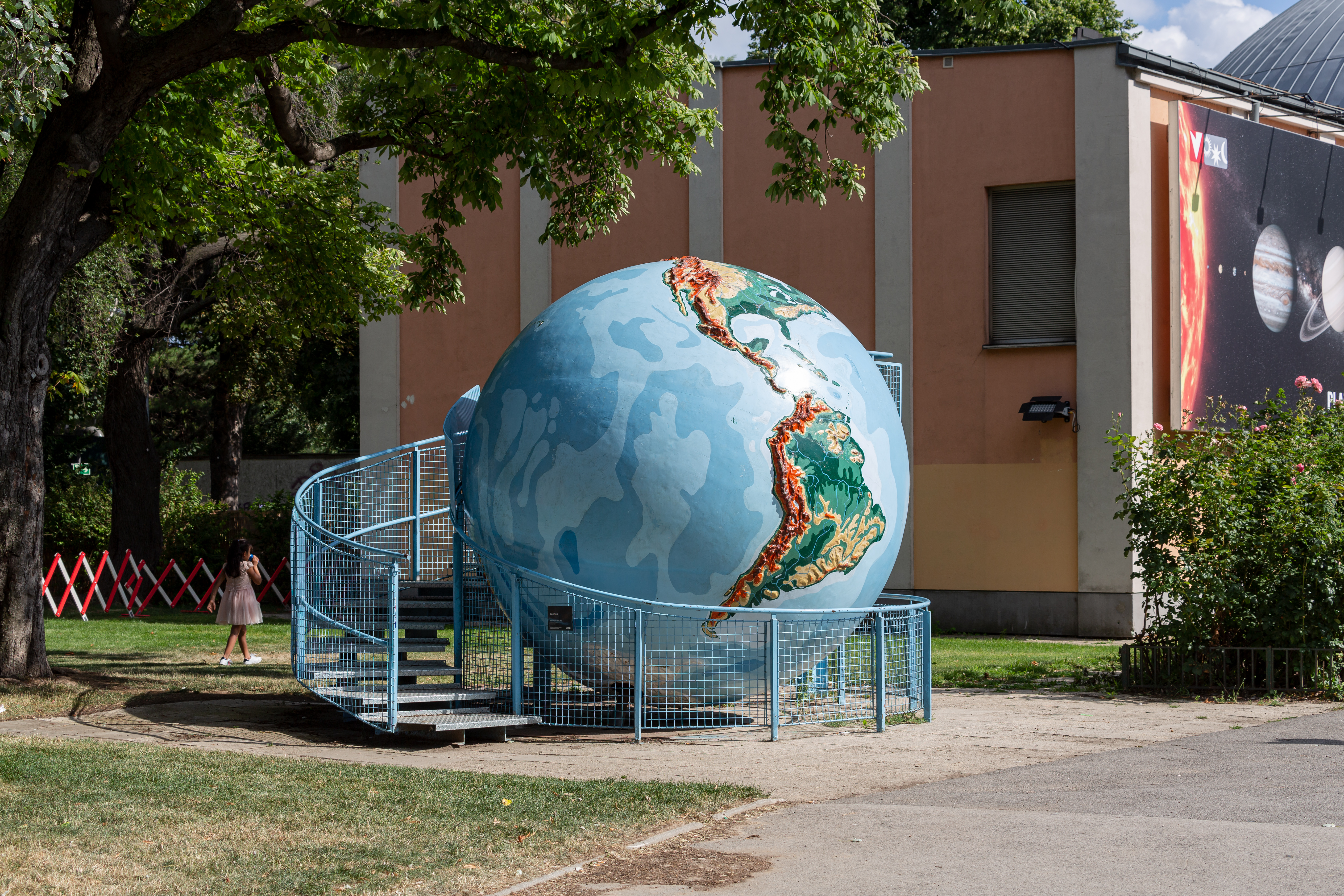 Globe by Josef Seebacher near the planetarium at the Prater in Vienna, Austria